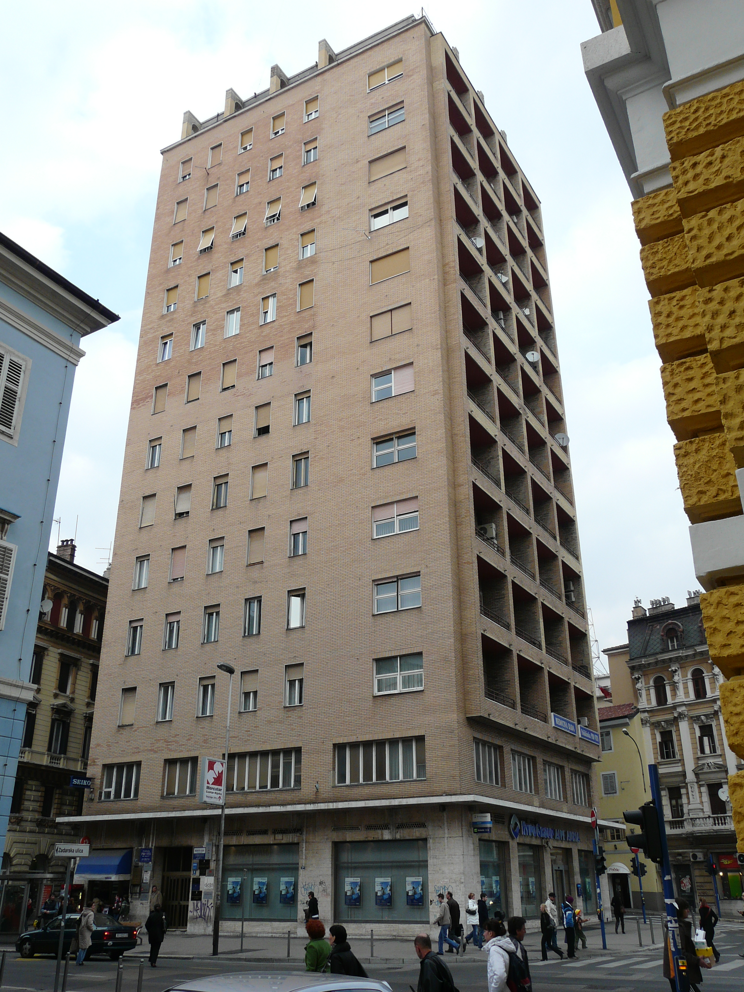 Nebodіor (Skyscraper) in Rijeka